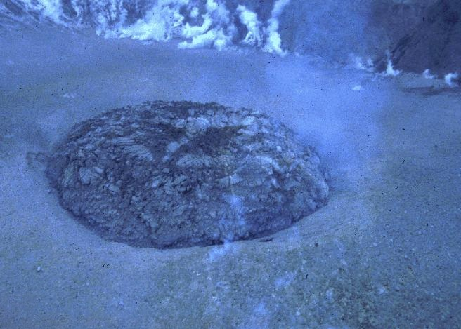 Mount St. Helens Dome on October 24, 1980. A new dome started growing on October 18,1980. This October dome was 112 feet (34 meters) high and 985 feet (300 meters) wide, making it taller than a nine-story building and wider than the length of three football fields. This aerial view is from the north. (October 24, 1980, by Terry A. Leighley, USGS/Sandia Labs)